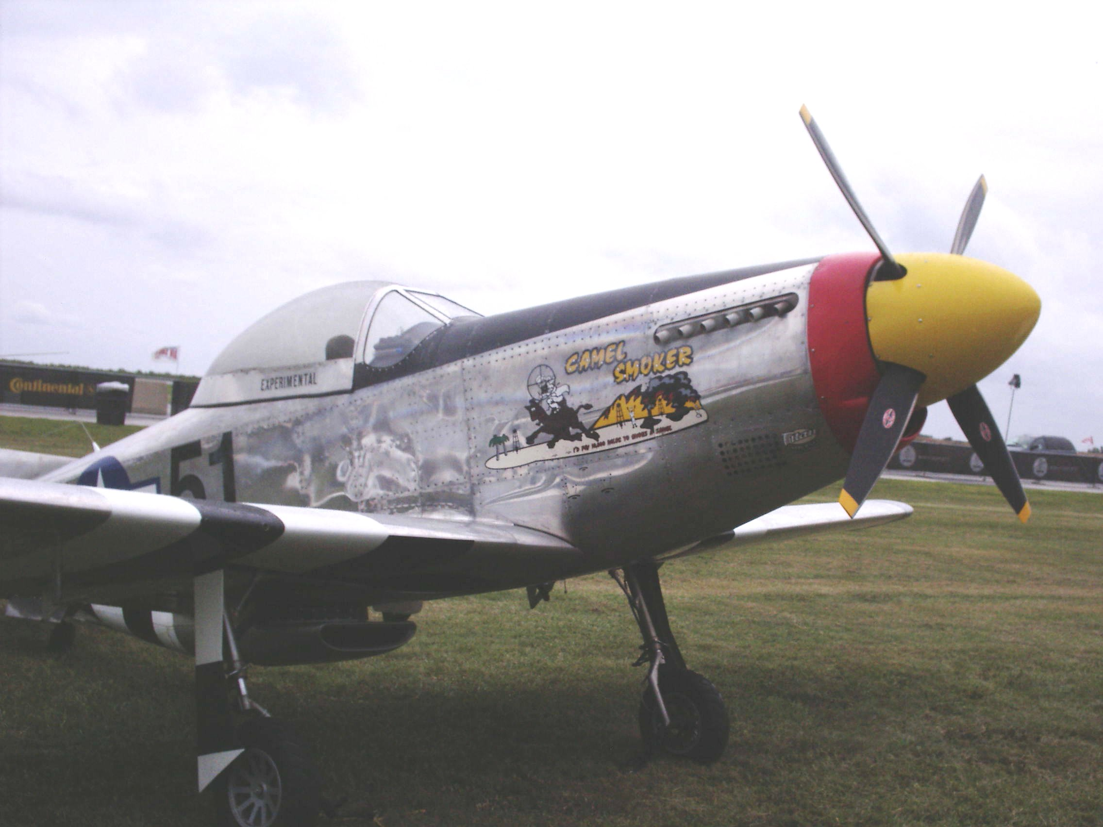 A Titan T-51 Mustang, N751TX / "Camel Smoker".